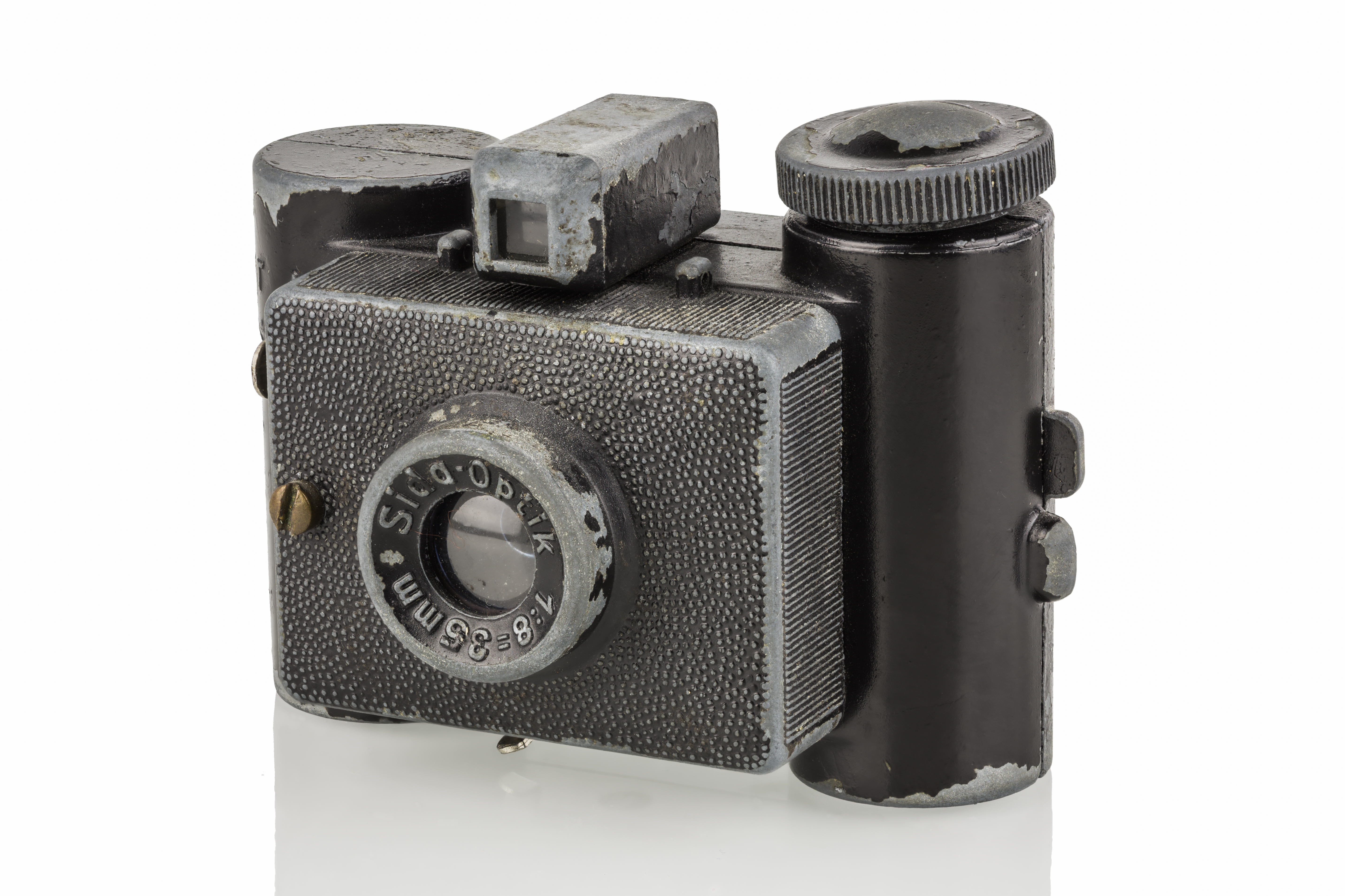 SIDA (Sida Gesellschaft fur photographische Apparate m.b.H., Berlin, Germany) 1938, Black cast metall for 25x25mm exposures. Several variations include shutter release on bottom Photograph: Focus stacking from 38 exposurs